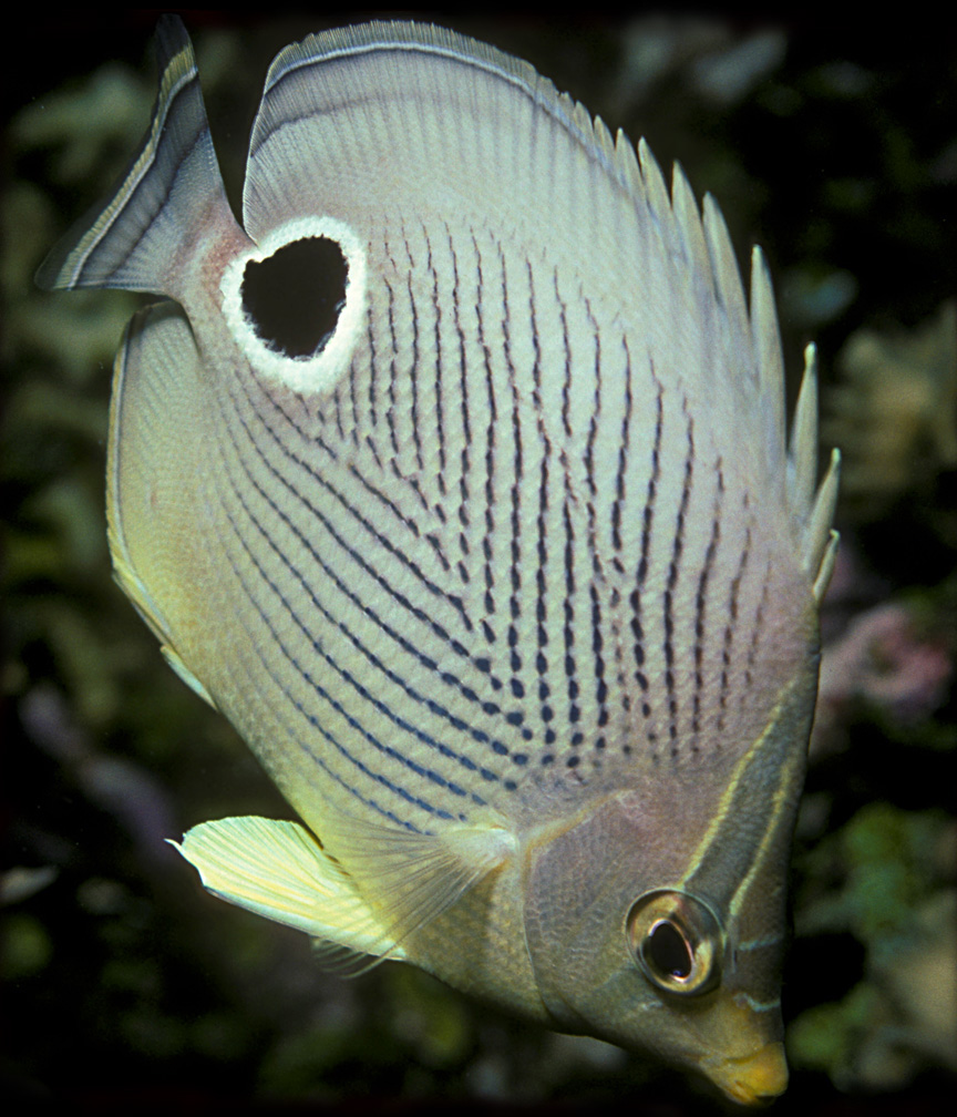 I got very close to this little fellow (Chaetodon capistratus). So, I airbrushed the outer edges of the photo slide frame after scanning so the crop wouldn't look too strange. Can you figure out how this little fish avoids predators?